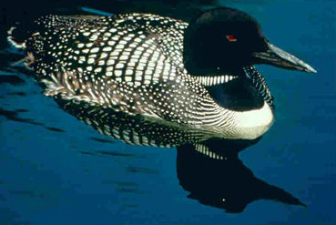 Gavia immer, Great Northern Diver or Common Loon